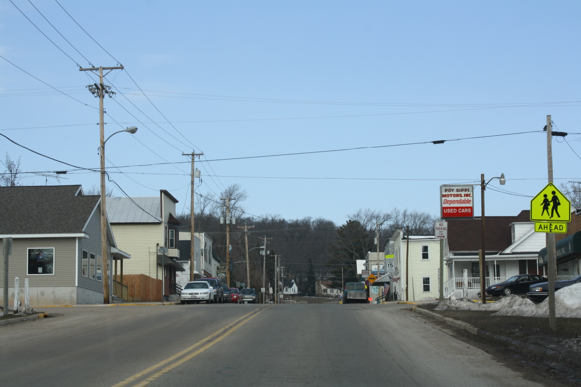 Looking north at Poy Sippi (community), Wisconsin along Wisconsin Highway 49.